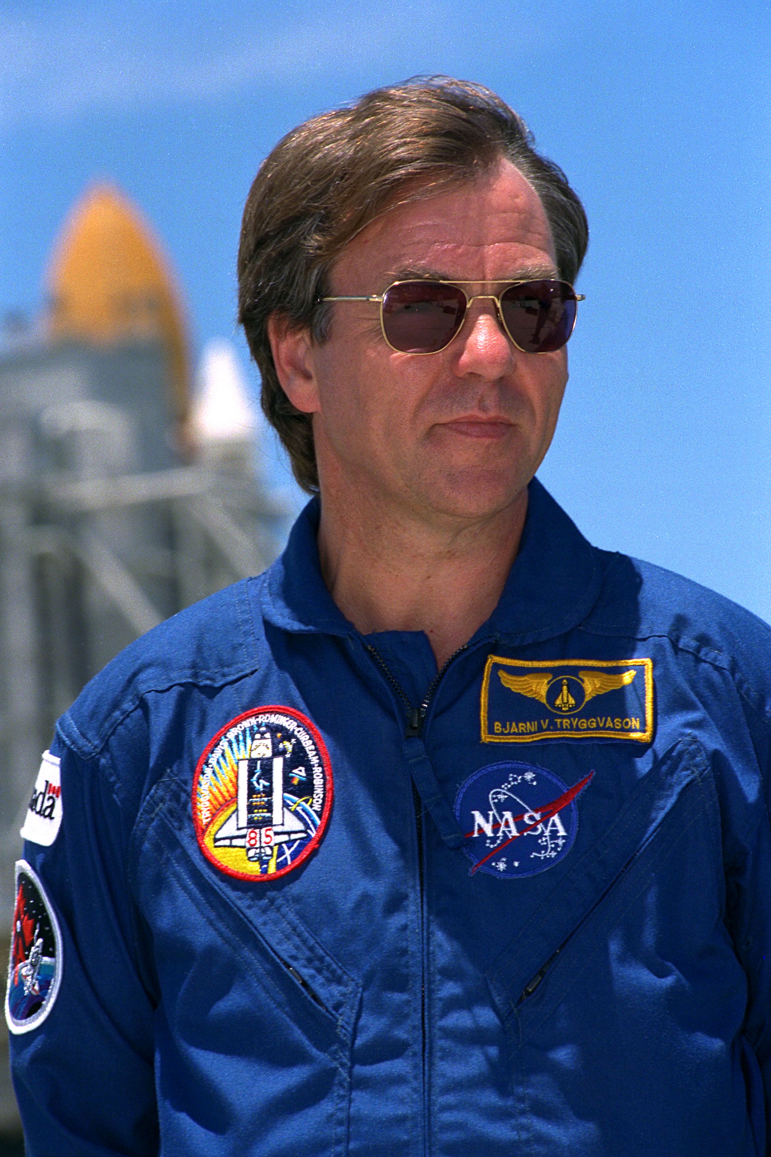 STS-85 Payload Specialist Bjarni V. Tryggvason stands ready for questions at a news briefing at Launch Pad 39A